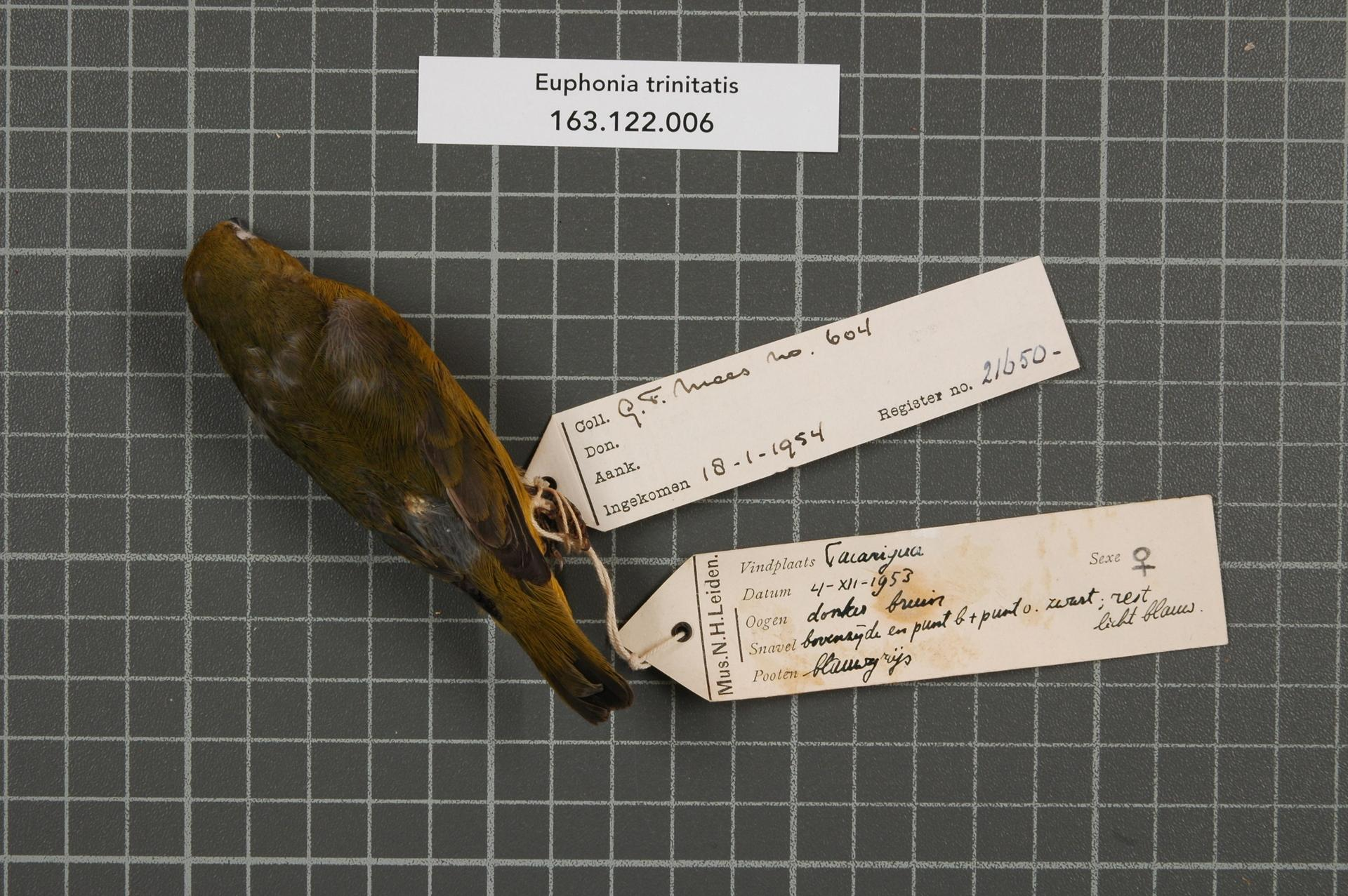 Euphonia trinitatis Strickland, 1851